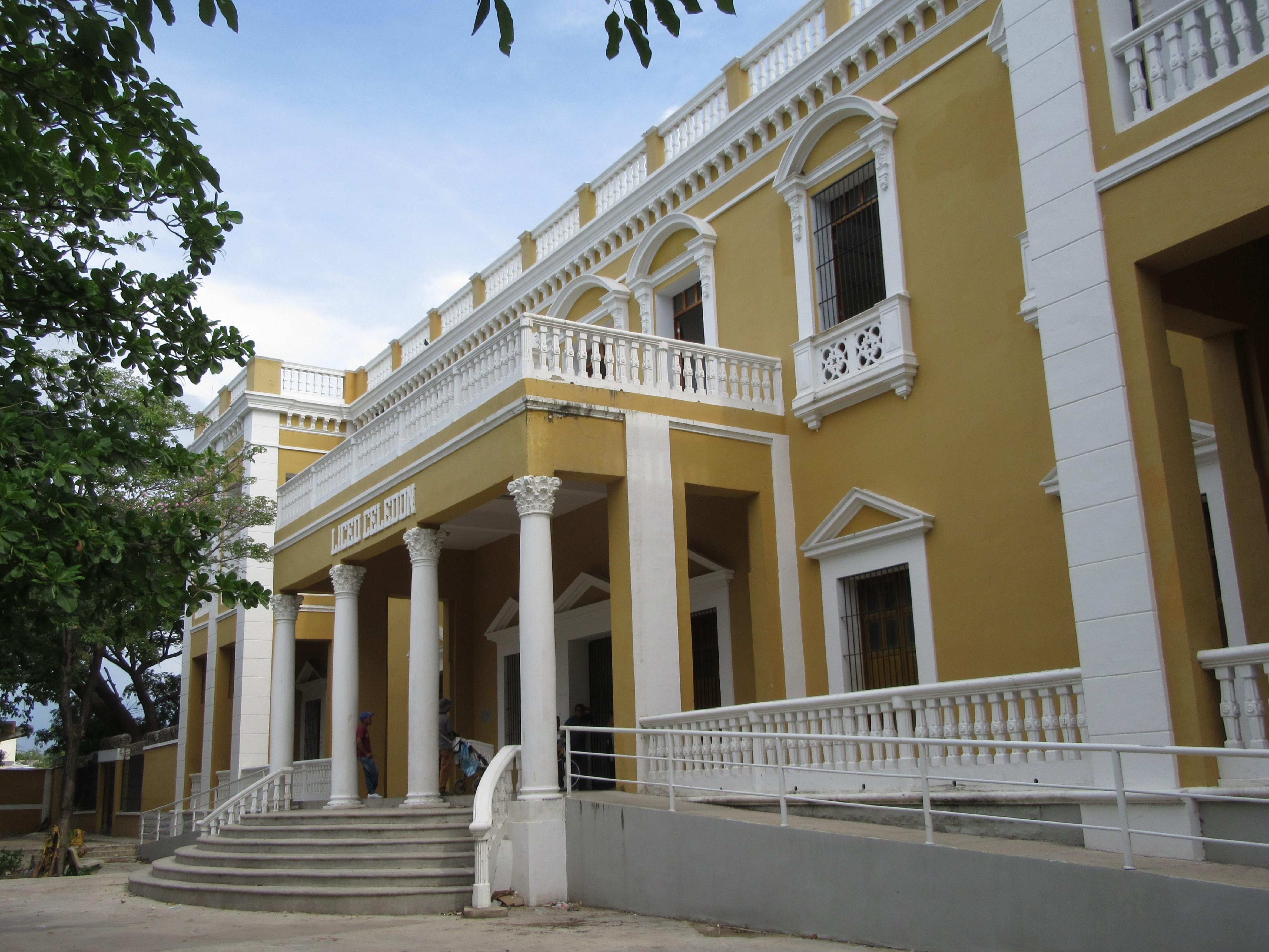 Santa Marta